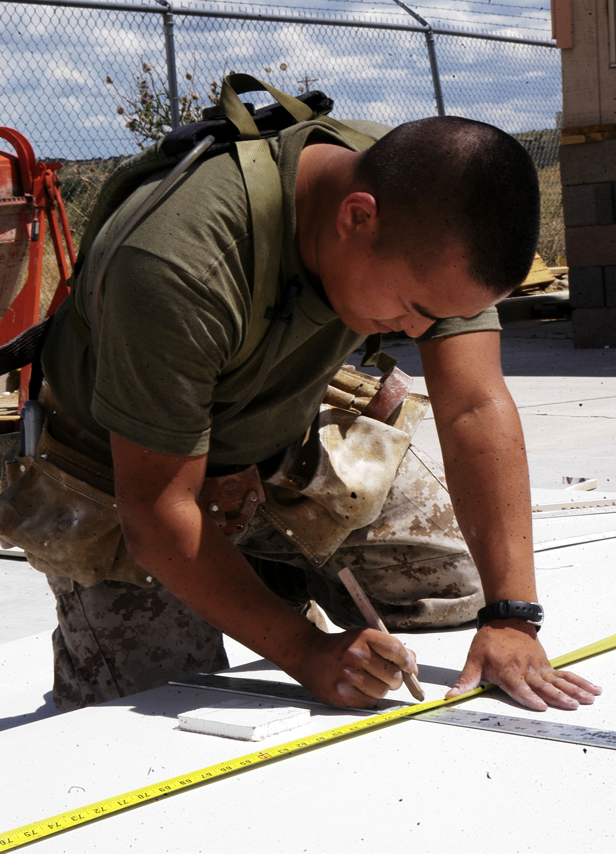 Pfc. Jesse S. Weinberger measures the length of drywall to be cut for the interior of a new home. Weinberger is a combat engineer with Marine Wing Support Squadron 471, who is in Gallup, NM, to build homes for indigent Native Americans.